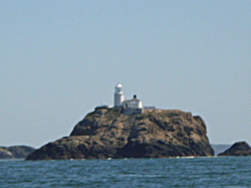 South Bishop from a few miles away by Catherine Davis (contact c/o )